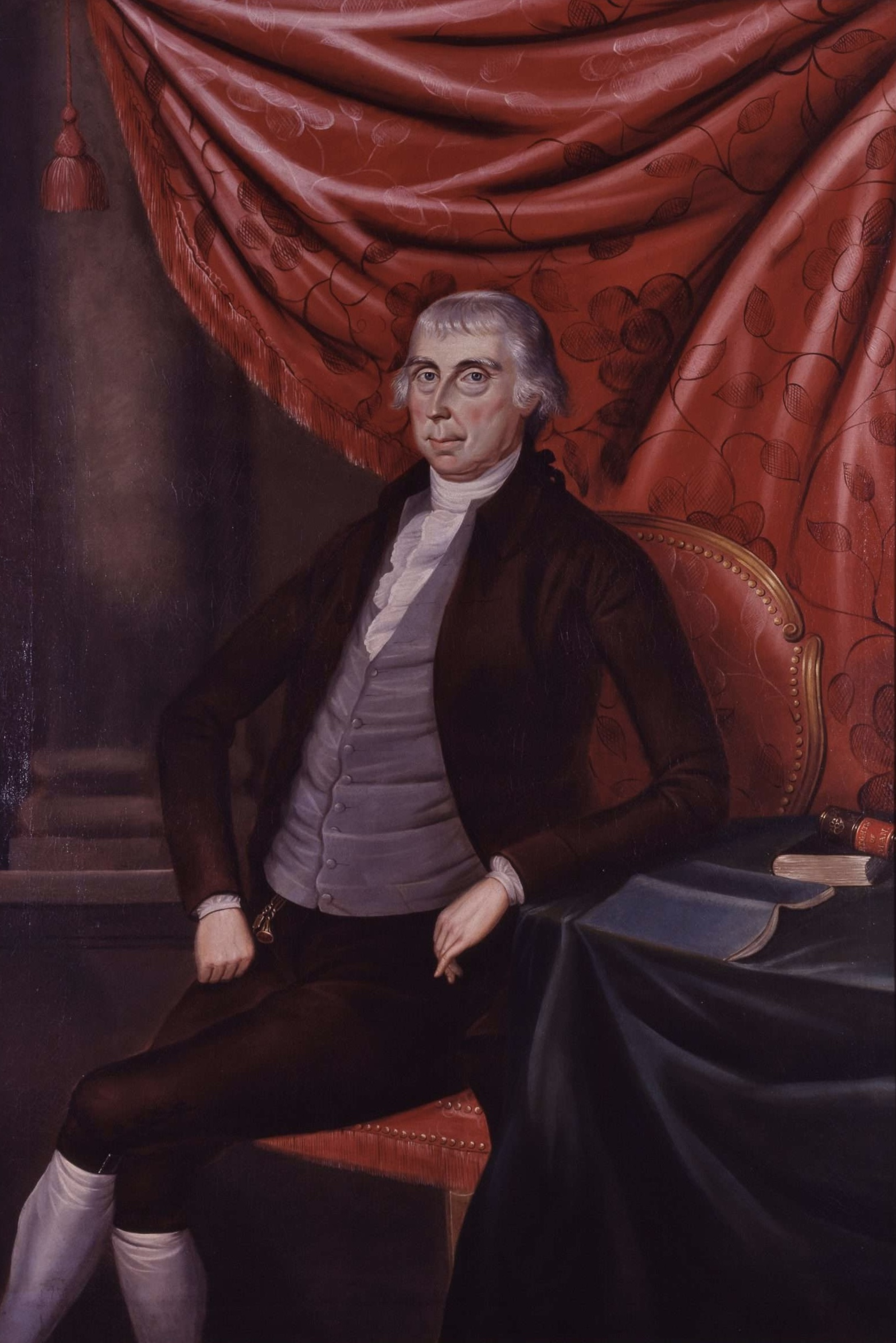 James Madison, Sr., father of President Madison. Oil painting ca. 1800.